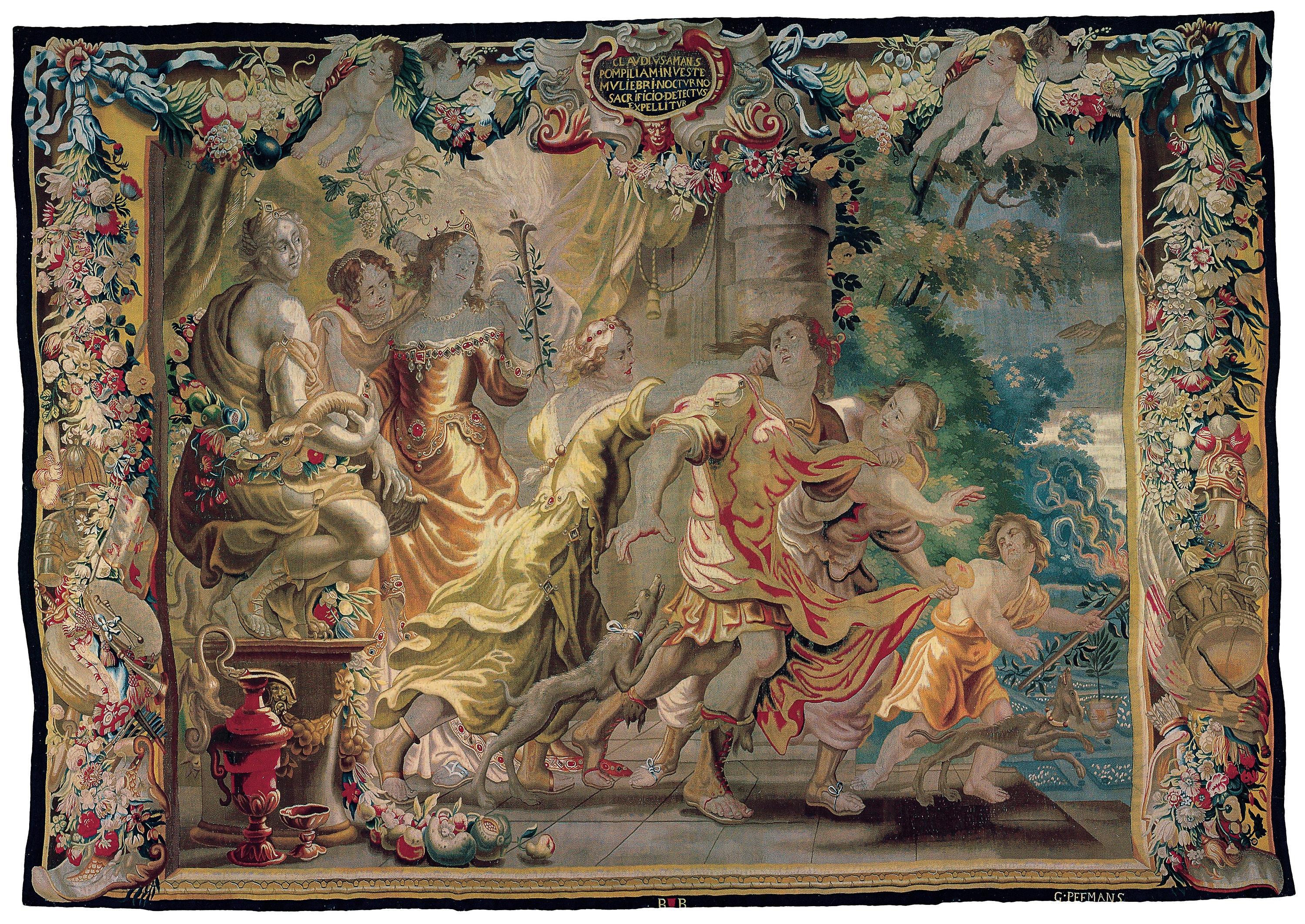 Clodius Disguised as a Woman